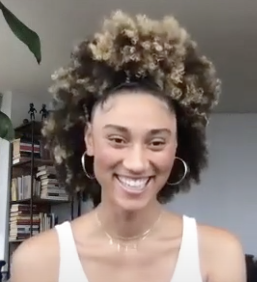 Ally Love on an April 2020 segment of Yes, We're Here on the YES Network